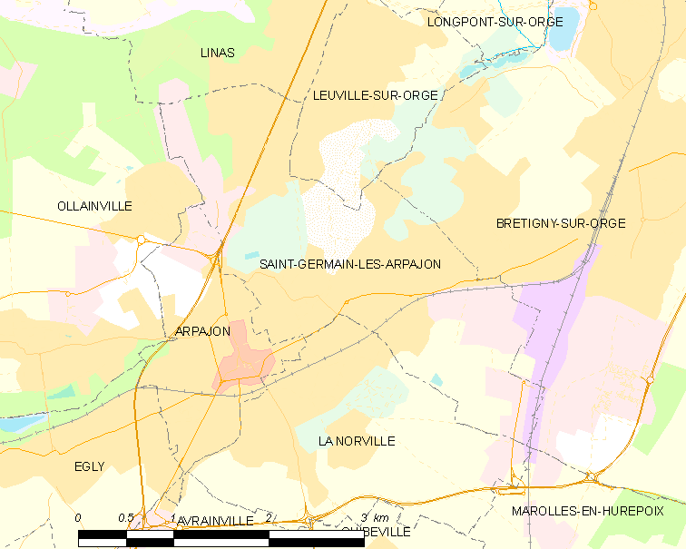 Map of French municipality Saint-Germain-lès-Arpajon